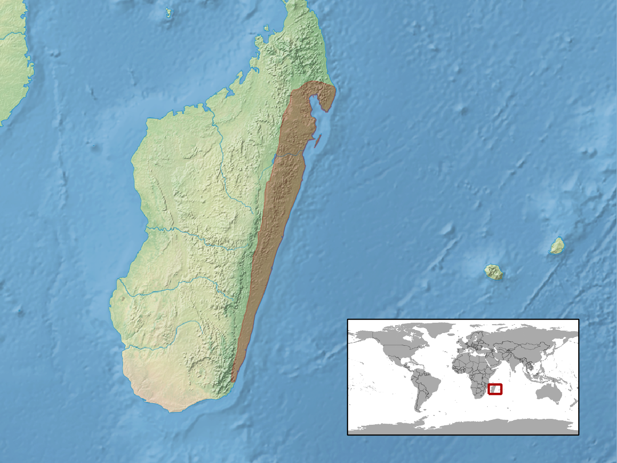 geographic distribution of Phelsuma madagascariensis (Native: Madagascar)